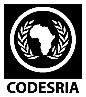 CODESRIA's official logo